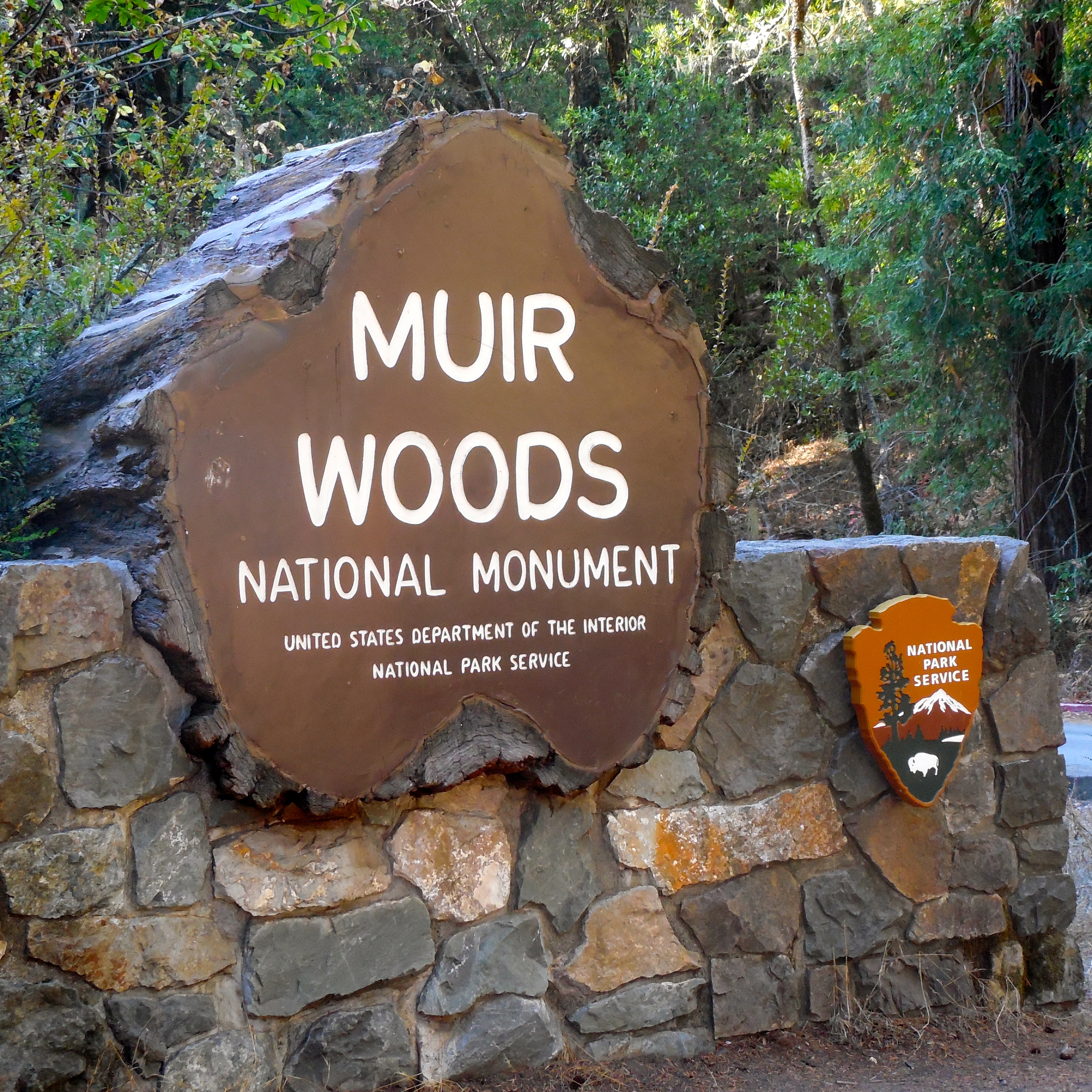 Muir Woods National Monument automobile entrance sign: Sep 2015